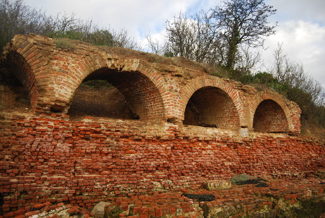 The remains of Cockham Woods Fort This is the remains of a gun platform, built as a response to the Dutch incursion into the River Medway in Pepys times.